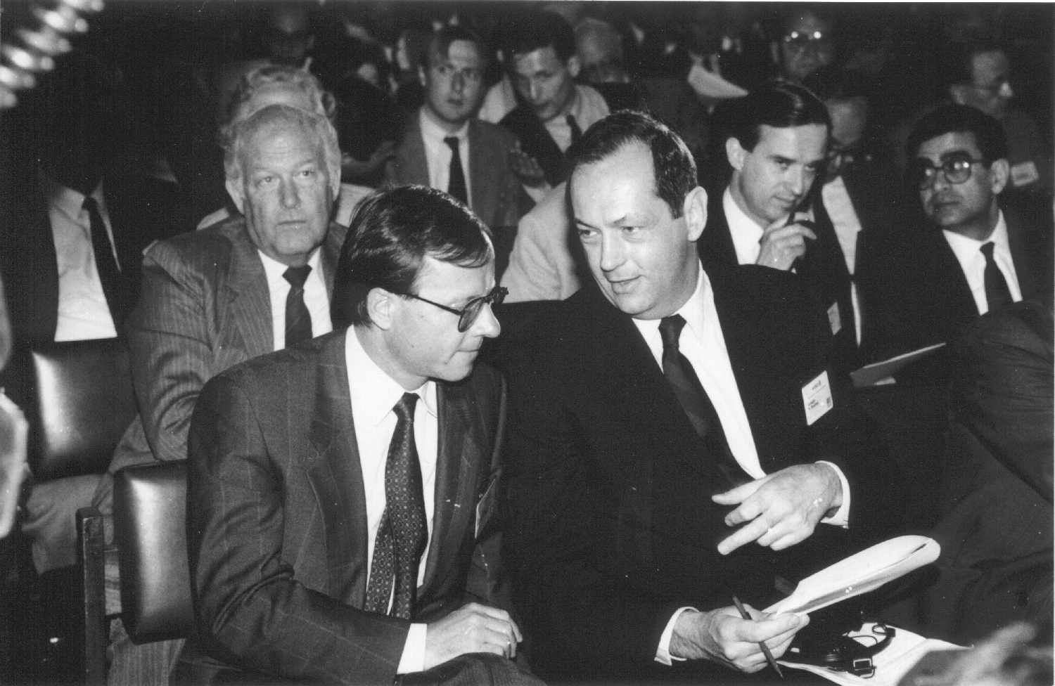 Discussion at a plenary session in the Aula of the University of St. Gallen during the St. Gallen Symposium